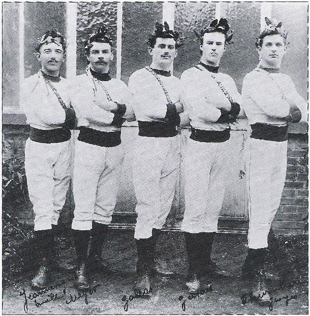 Gymnastes Belfortains